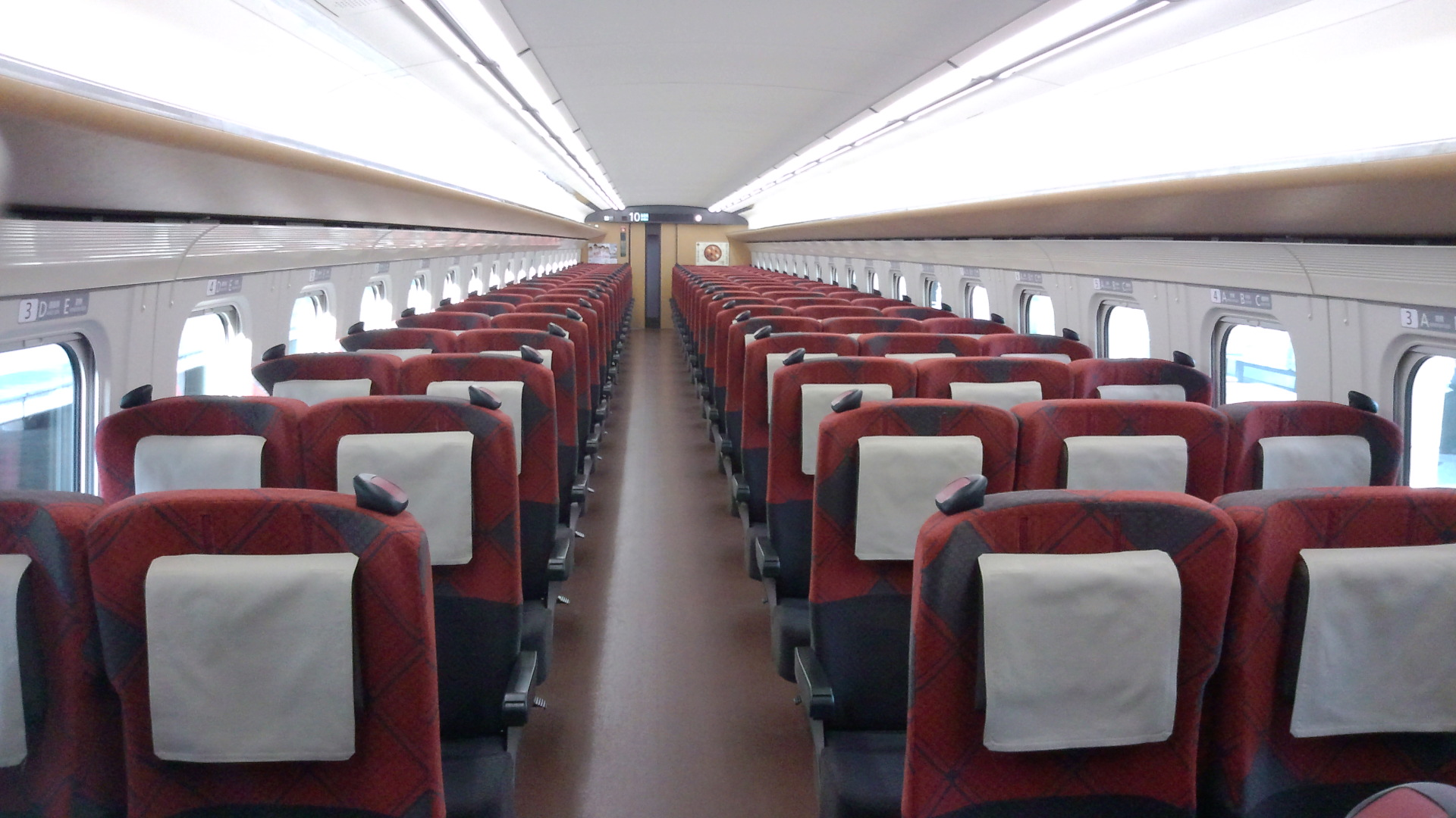 Interior of a JR East E7 series shinkansen standard-class car (car 10)